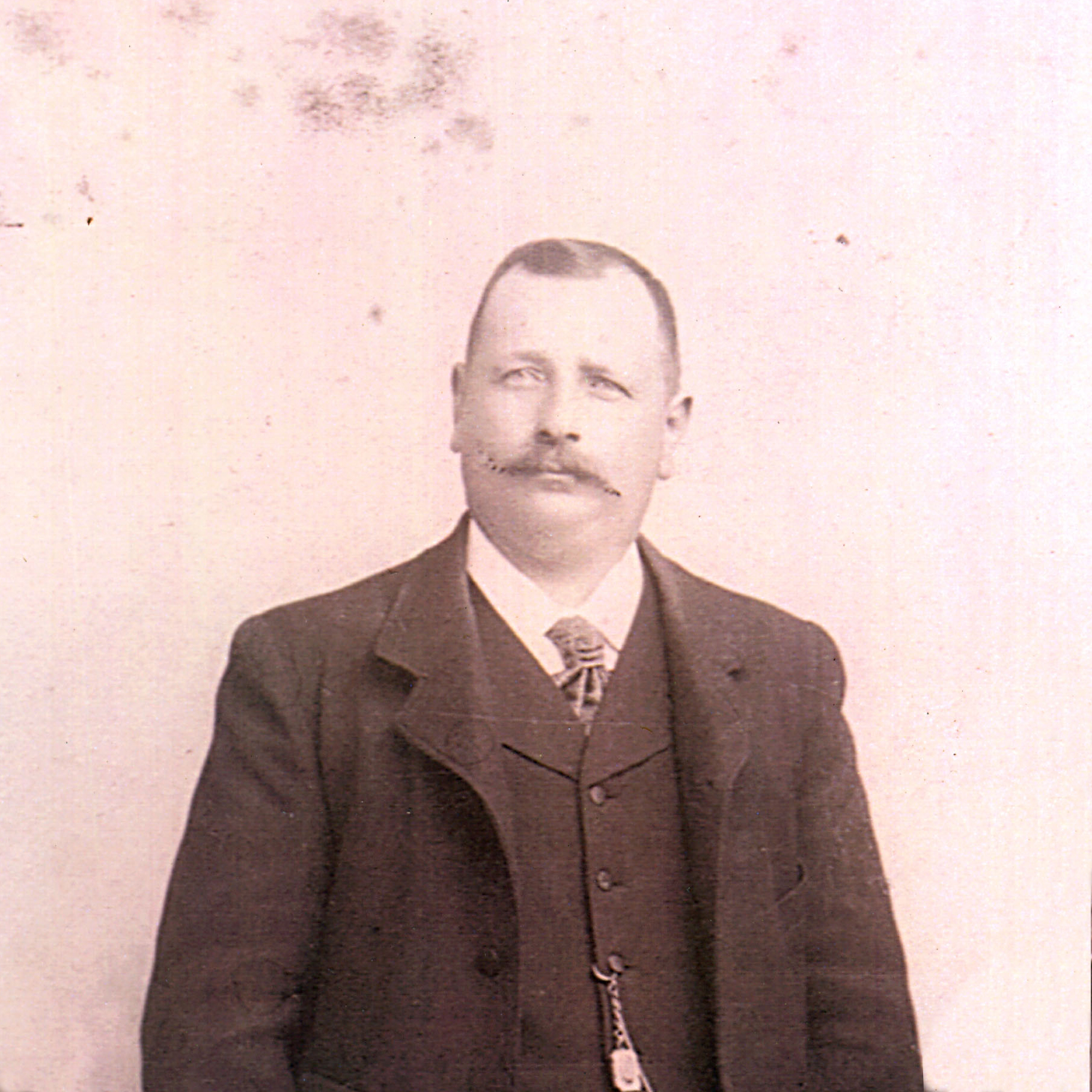 Portrait of the Italian businessman and agricultural manager Felipe Rutini, one of the pioneers on wine-making in Argentina